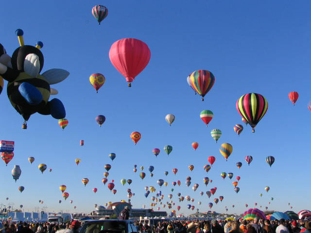 A sky full of balloons at the 2006 Albuquerque International Balloon Fiesta, Albuquerque, NM, USA. (In case anyone is counting, there are at least 137 balloons in this photograph.).